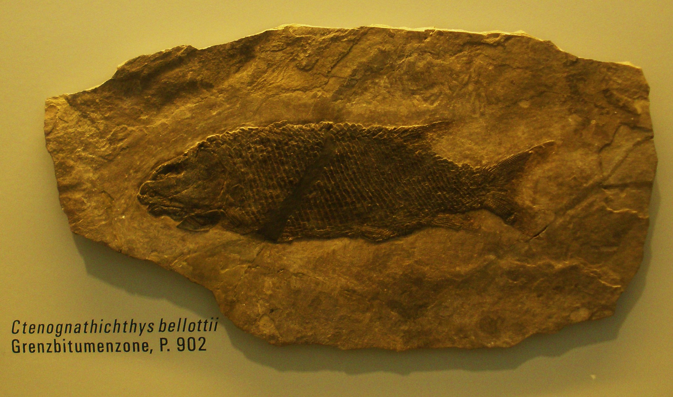 fossil Ctenognathichthys